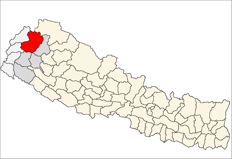 FrenchCarte de localisation dudistrict de Bajhang(wp-FR),au Népal (wp-FR).EnglishLocation map ofBajhang District(wp-EN),in Nepal (wp-EN).